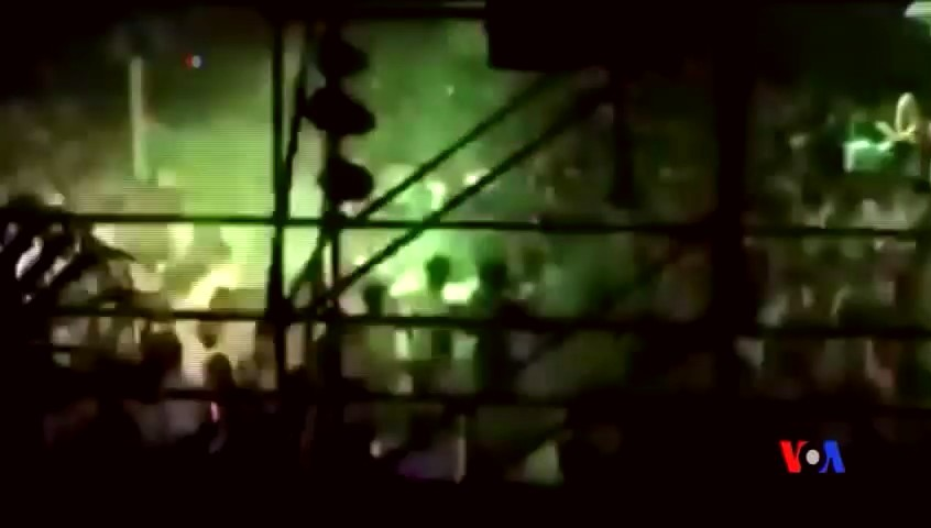 On 27 June 2015, a "color powder party" held inside a drained swimming pool at a water park at night in Taiwan caught a fire.